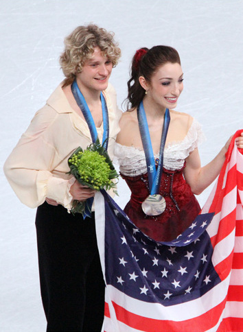 2010 Winter Olympics figure skating - Meryl Davis and Charlie White